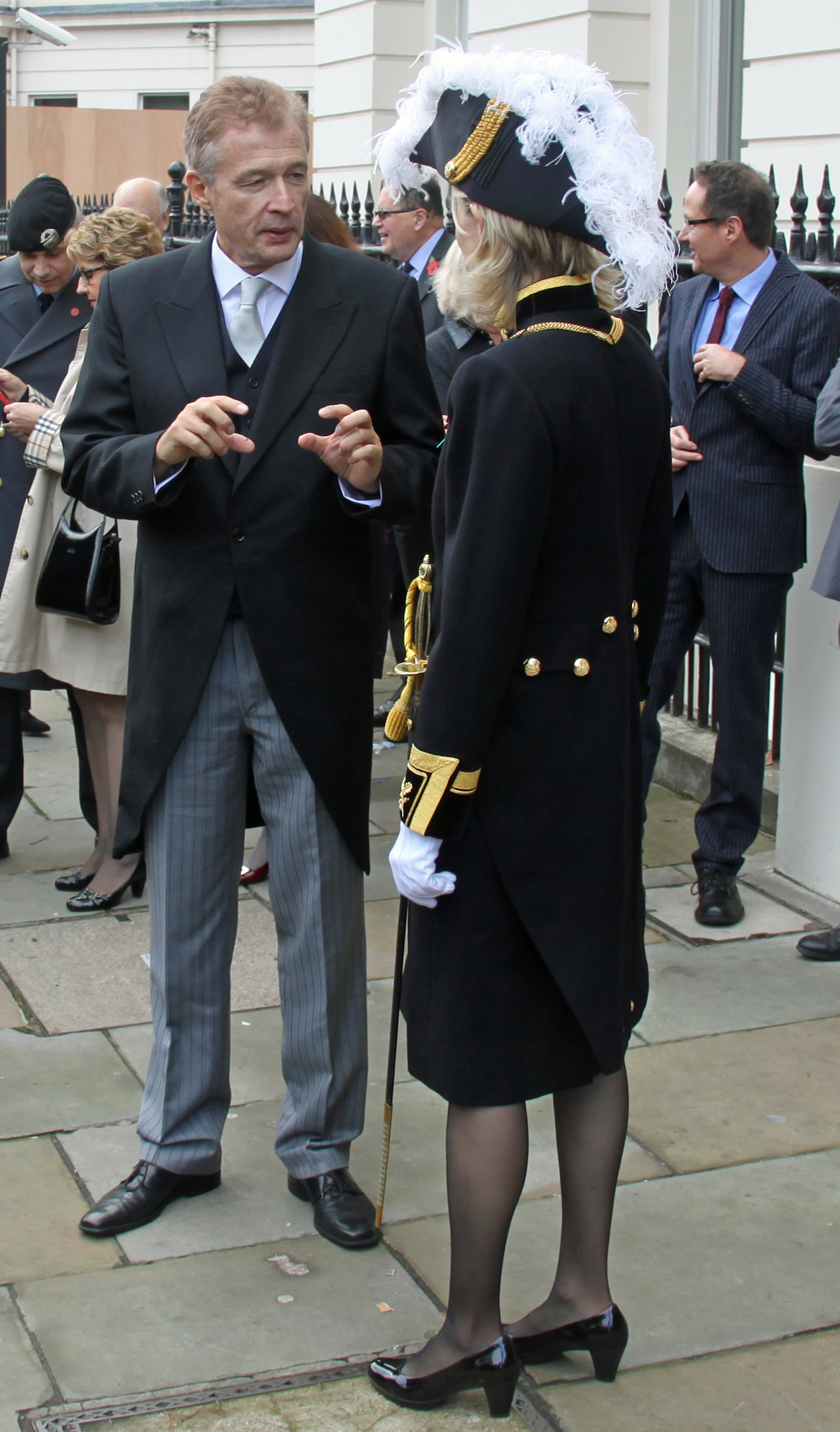 Peter Ammon, Ambassador to the Court of St. James's, and Anna Clunes, Vice-Marshal of the Diplomatic Corps, were back to the Embassy of Germany in London on November 5, 2014.